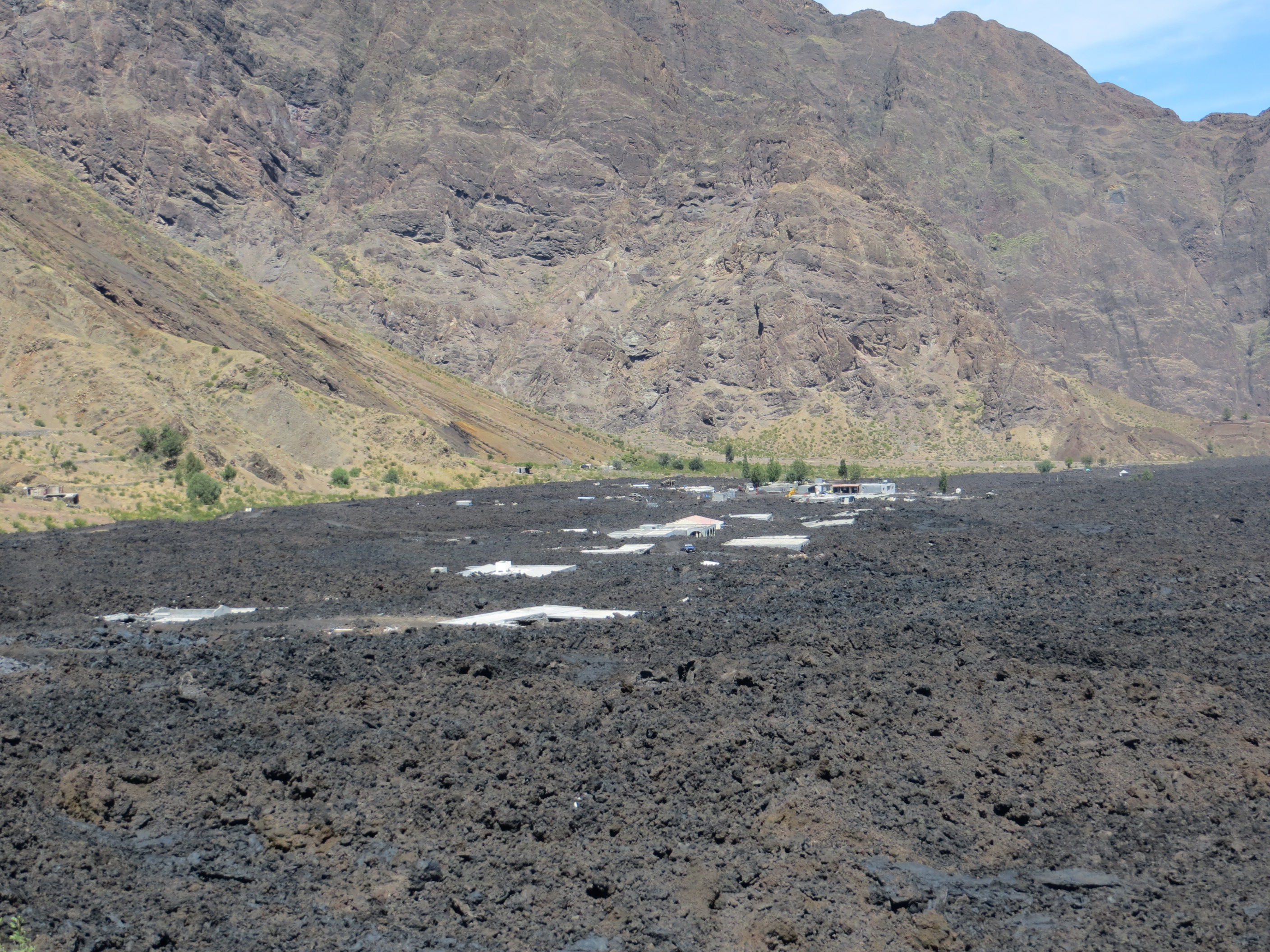 Bangaeira, below lava of the 2014 eruption